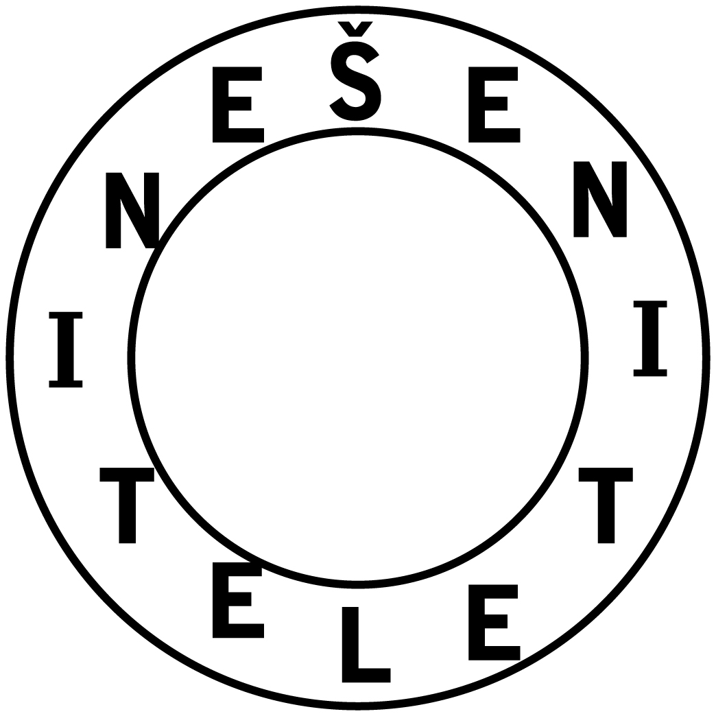 Palindrom sentences author Miran Erceg